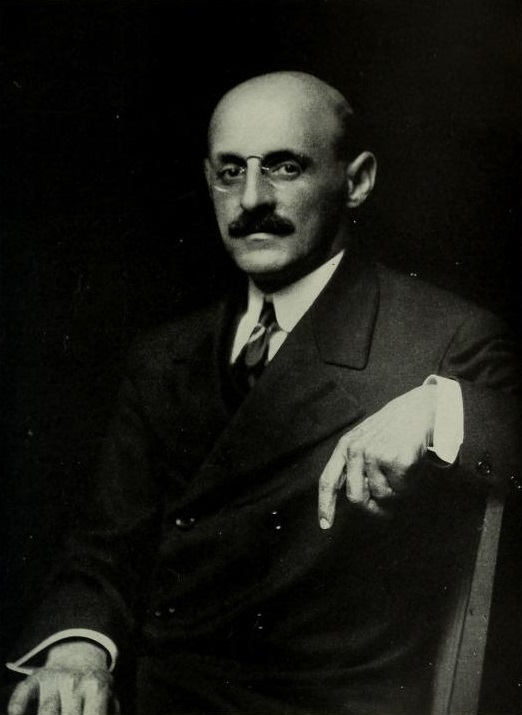 Picture of Abraham Flexner